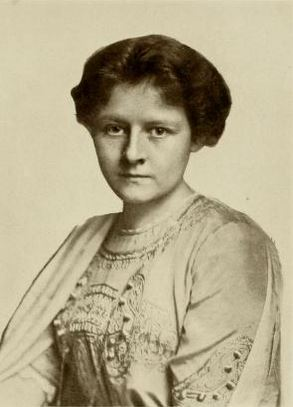 Adele Schulenburg, Kajiwara Photo, Johnson, Anne (André) "Mrs. Charles P. Johnson", 1871-. Notable women of St. Louis, 1914; (Kindle Location 4402). [St. Louis, Woodward.]